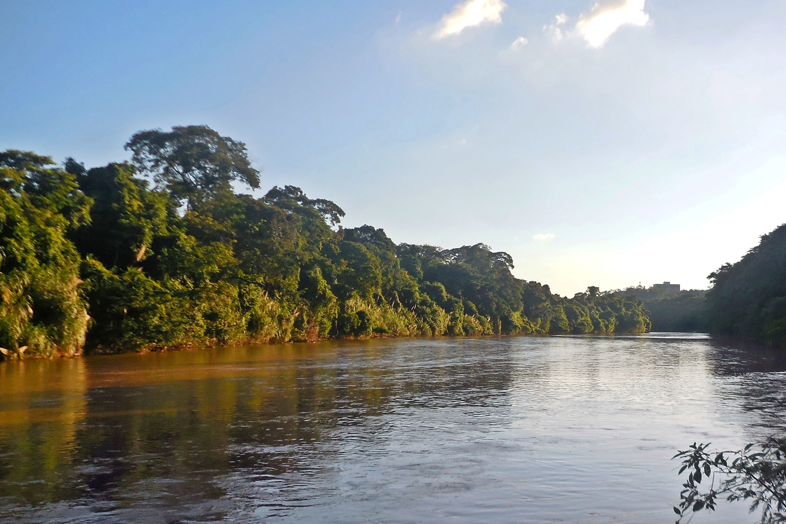 The Piracicaba River between Timóteo and Ipatinga, Minas Gerais, Brazil.